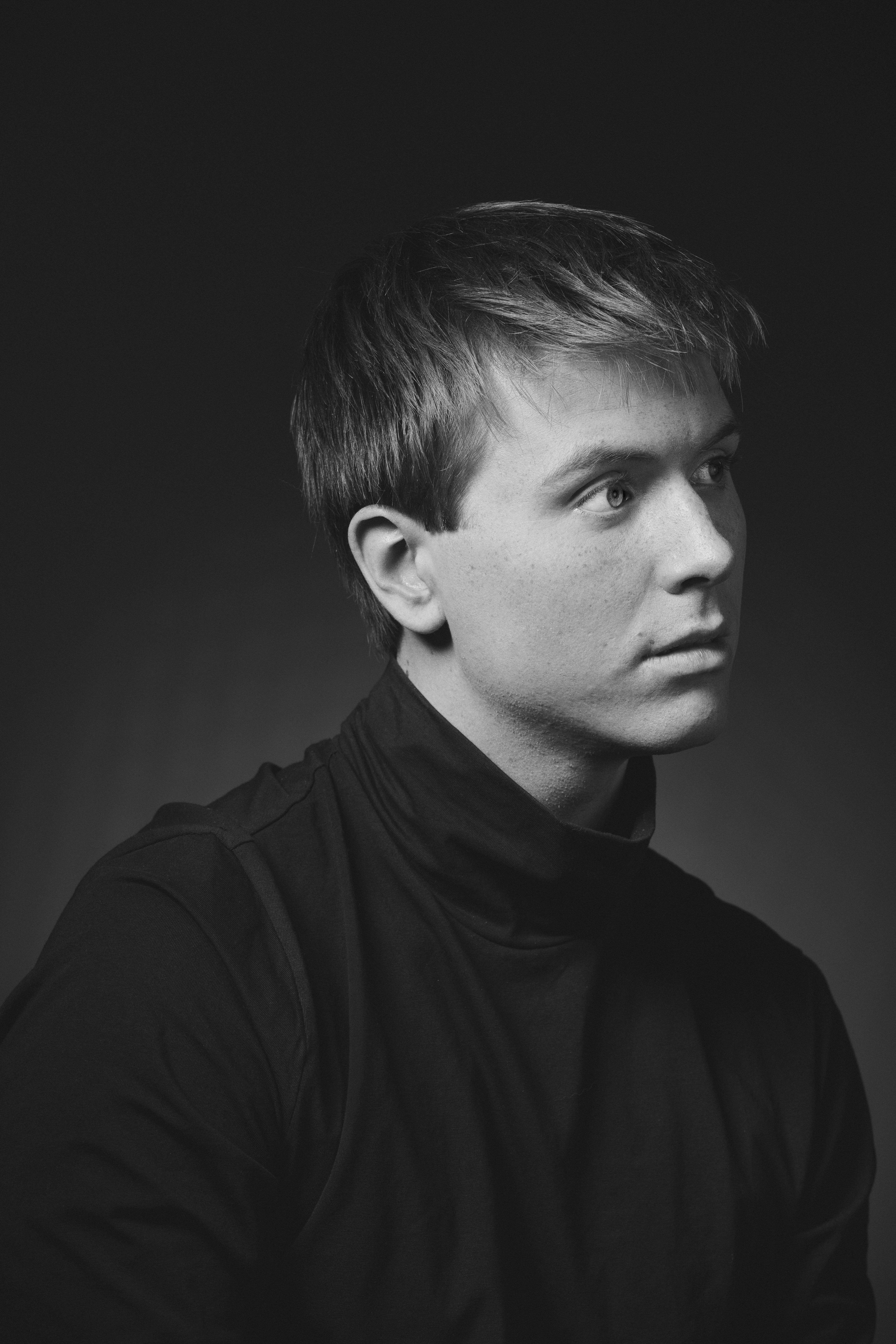 A photo taken by Ólafur Már Svavarsson in may 2019